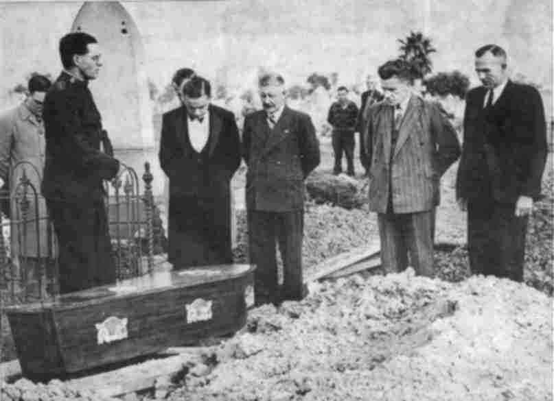 Burial of the Somerton Man on 14 June 1949. By his grave site is Salvation Army Captain Em Webb, leading the prayers, attended by reporters and police. From left to right are: Unknown, Captain Em Webb, Laurie Elliot, Bob Whitington, Unknown, S. C. Brice, police sergeant Scan Sutherland, Claude Trevelion.